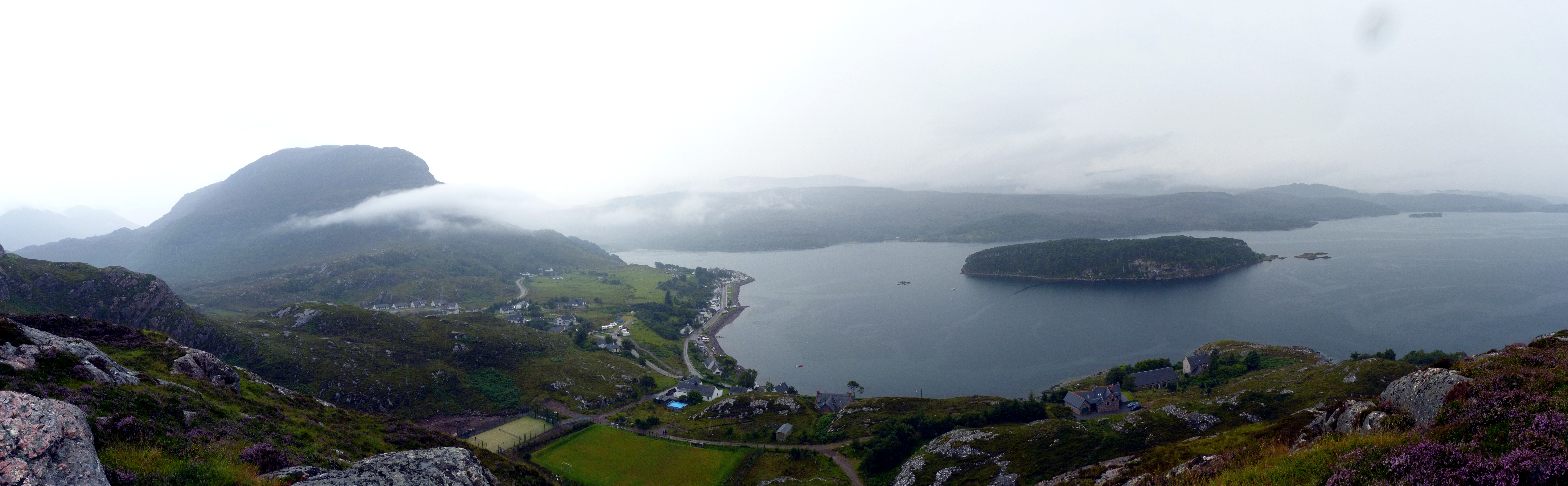 Shieldaig